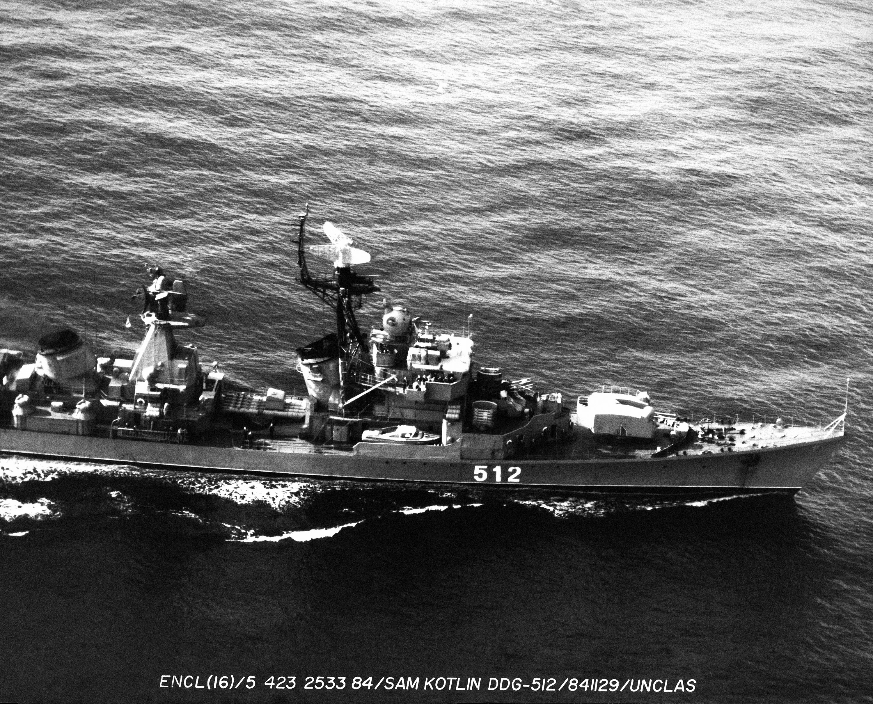 An elevated starboard bow view of the forward half of the Soviet project 56A destroyer Soznatel'nyy (NATO - SAM Kotlin class) guided missile destroyer.